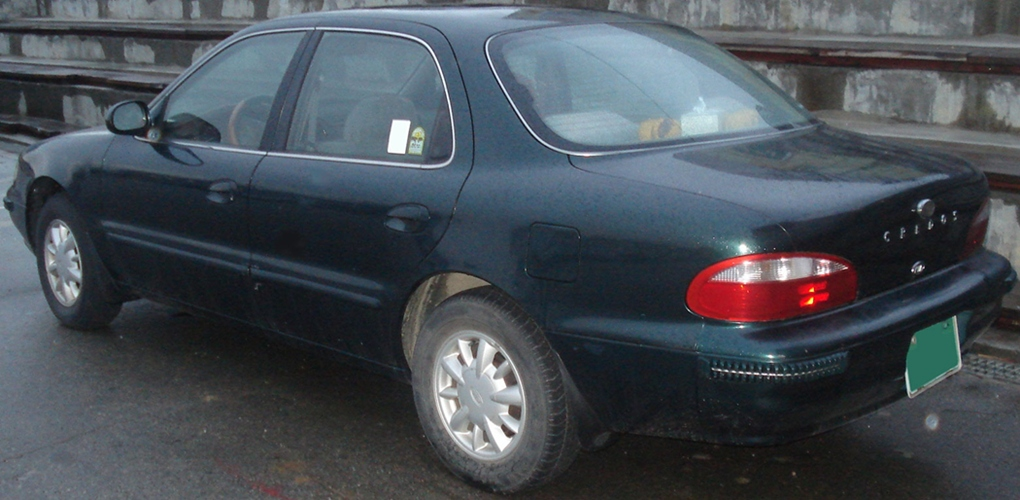 Kia Credos